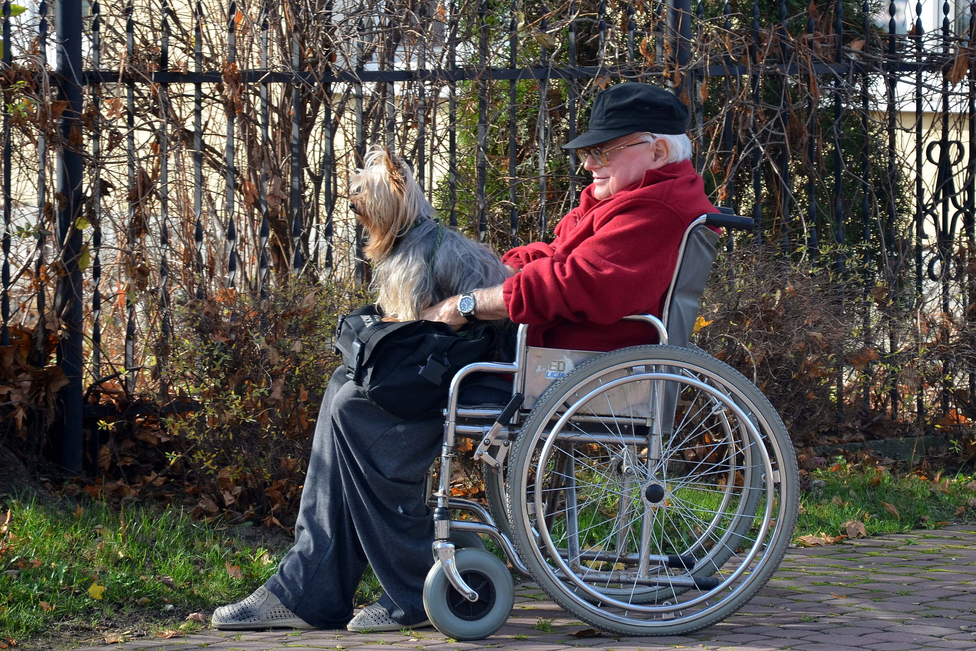 Janusz Szuber